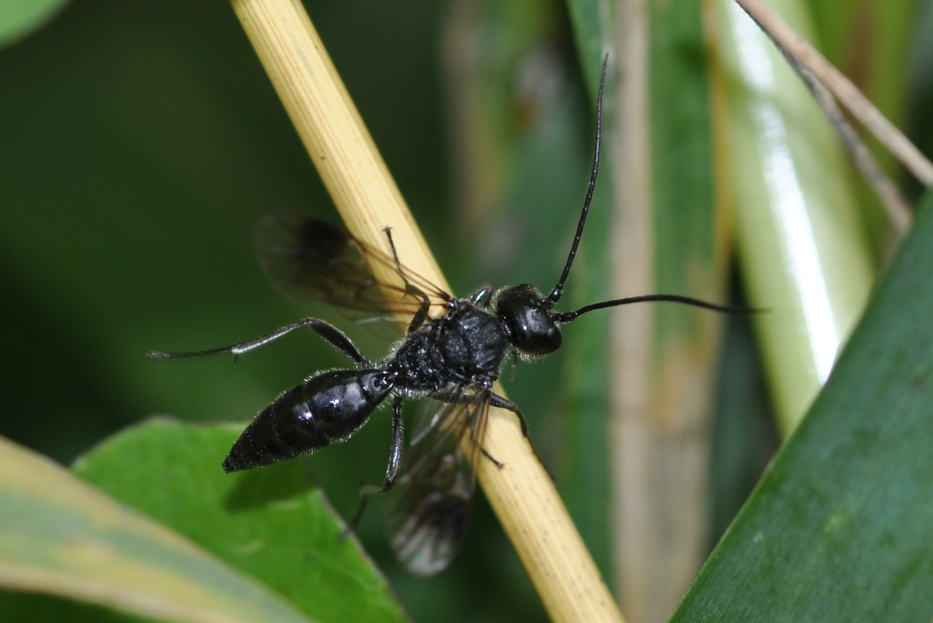 Pseudogonalos hahnii in Kirchwerder, Hamburg.